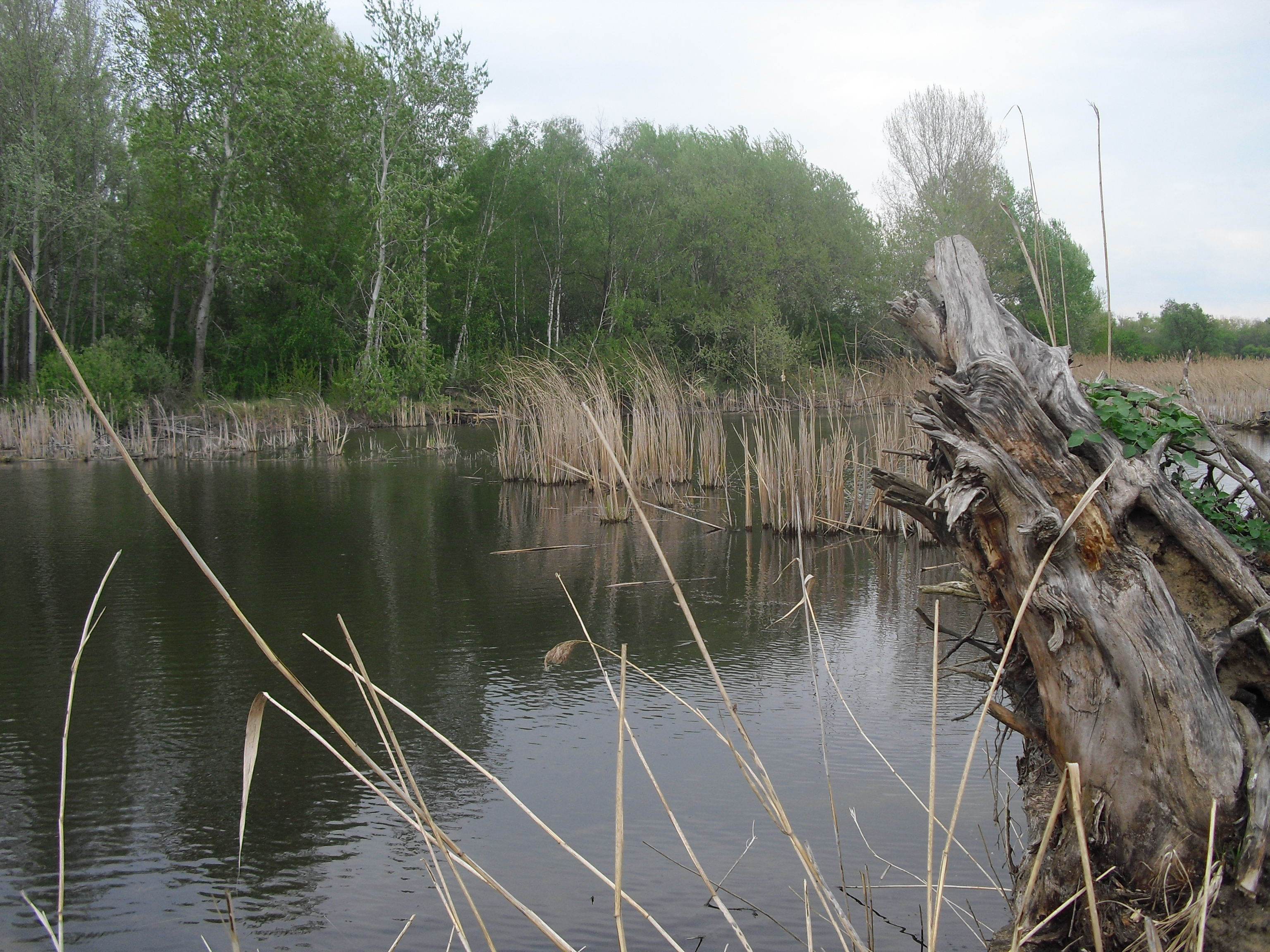 Vypálenky, natural monuments near Moravský Písek, Hodonín District, Czech Republic.